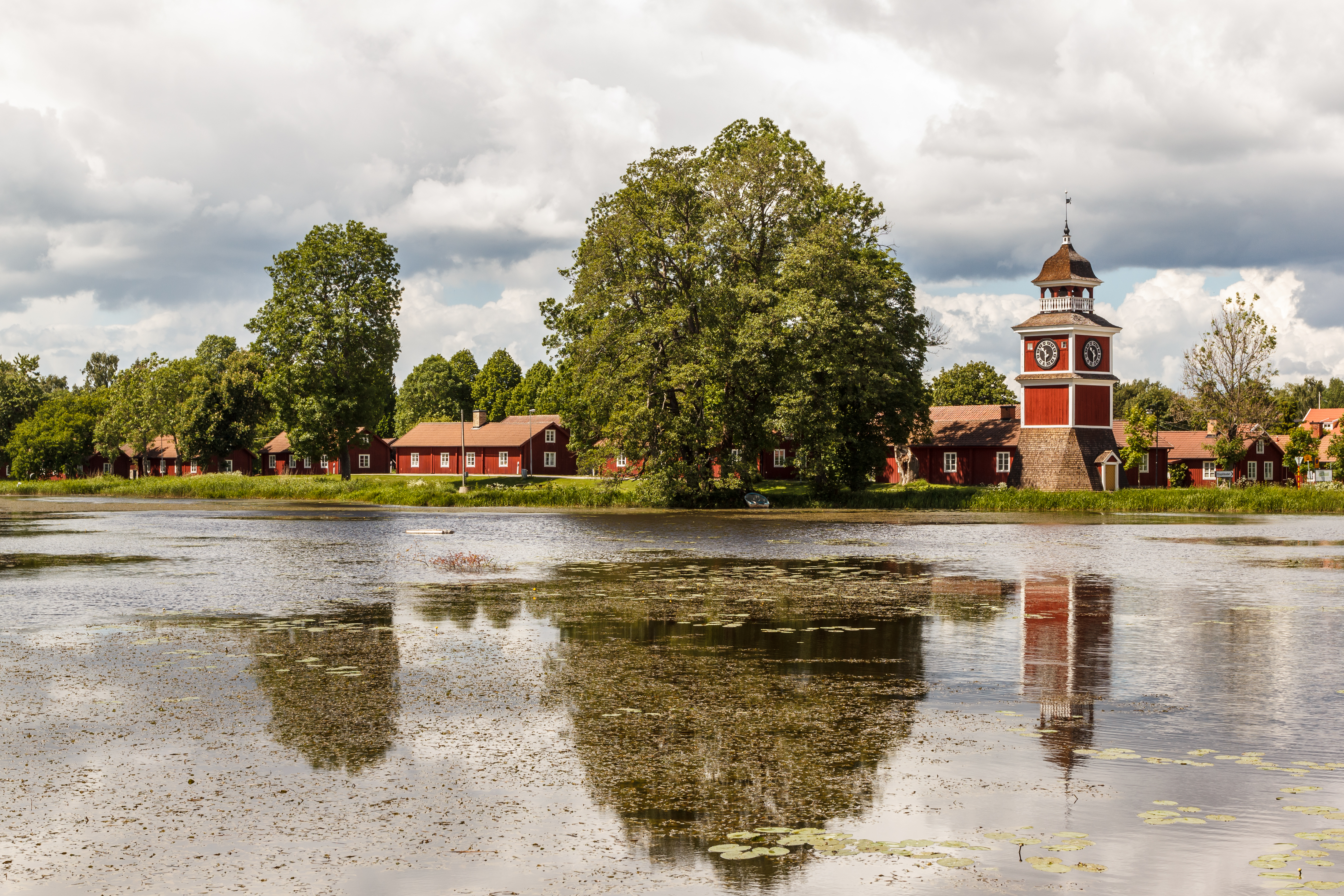 Dam in stream Tämnarån ("[Lake] Tämnaren stream") at Karlholm former ironworks, Karlholmsbruk, Sweden. Workers housing and belfry in background.